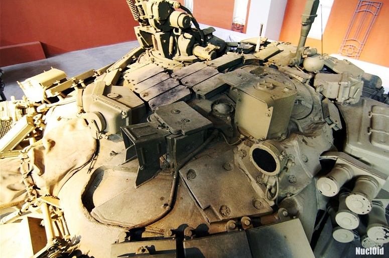 T-90 turret fitted with third generation Kontakt-5 ERA.